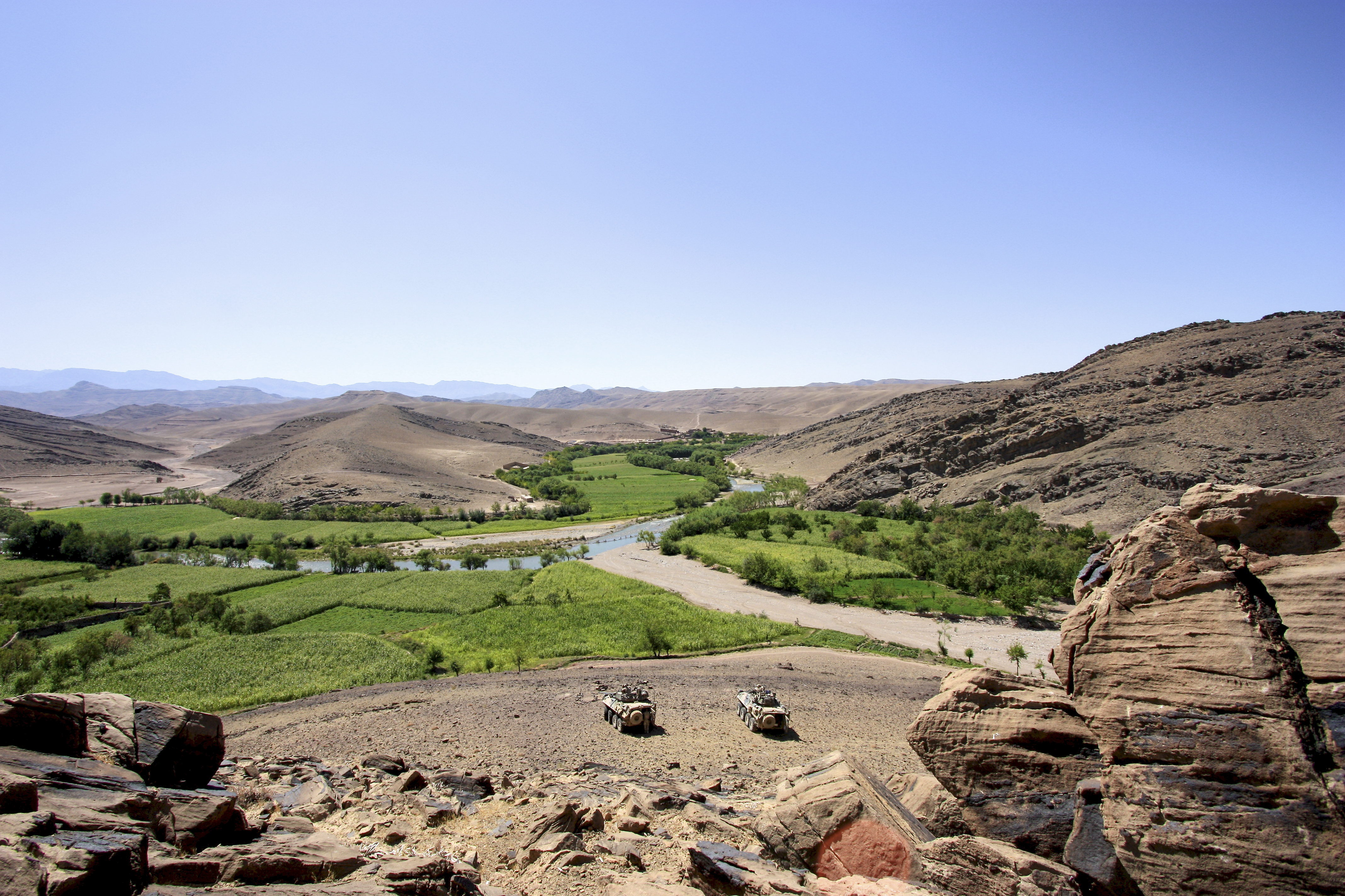 charmestan valley afghanistan